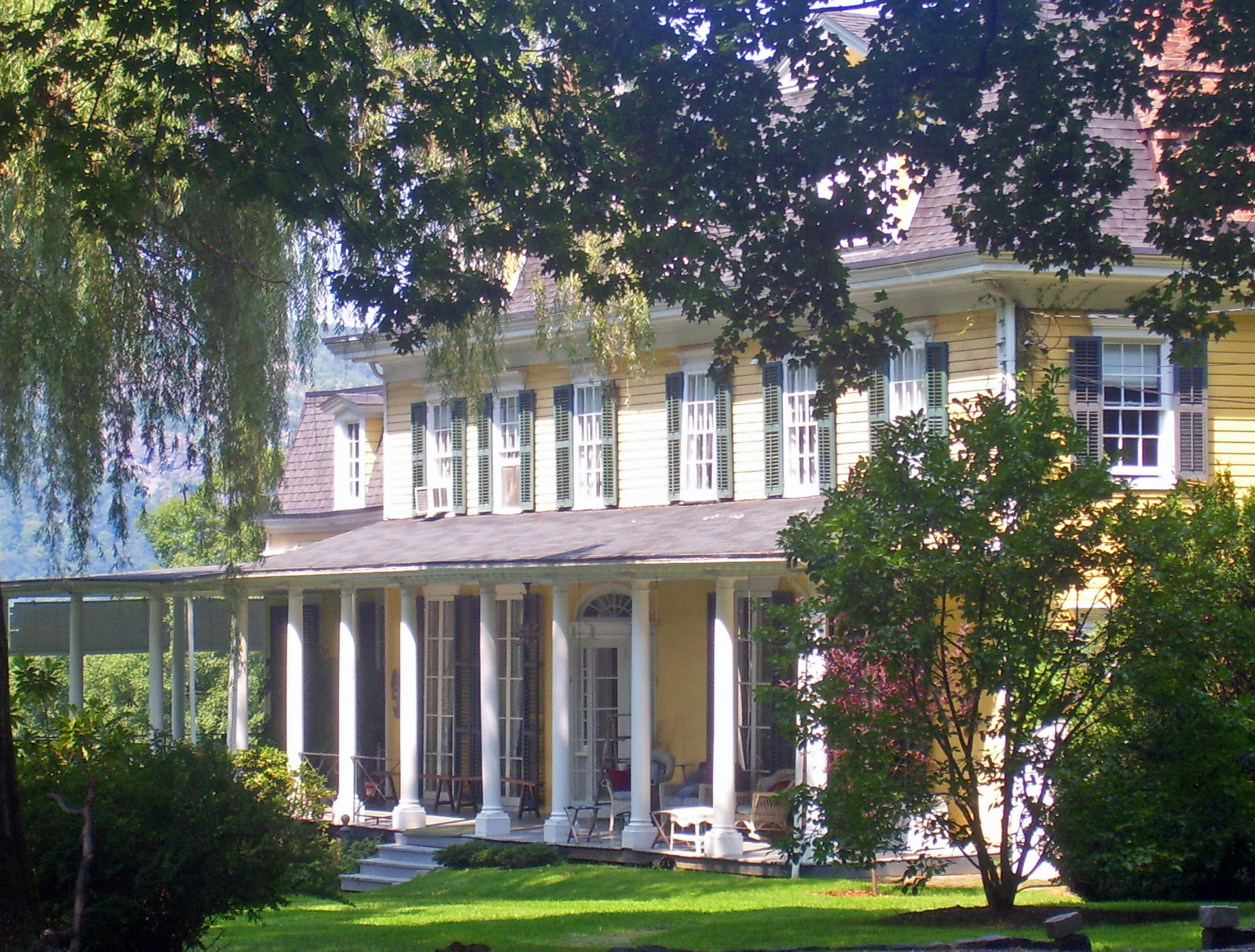 Former DeRham Farm main house outside Garrison, NY, USA